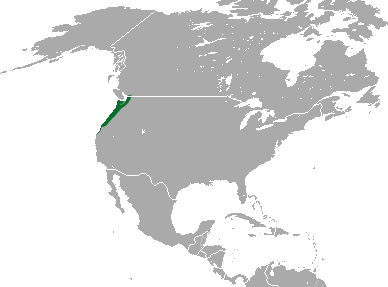 Townsend's Mole (Scapanus townsendii) range